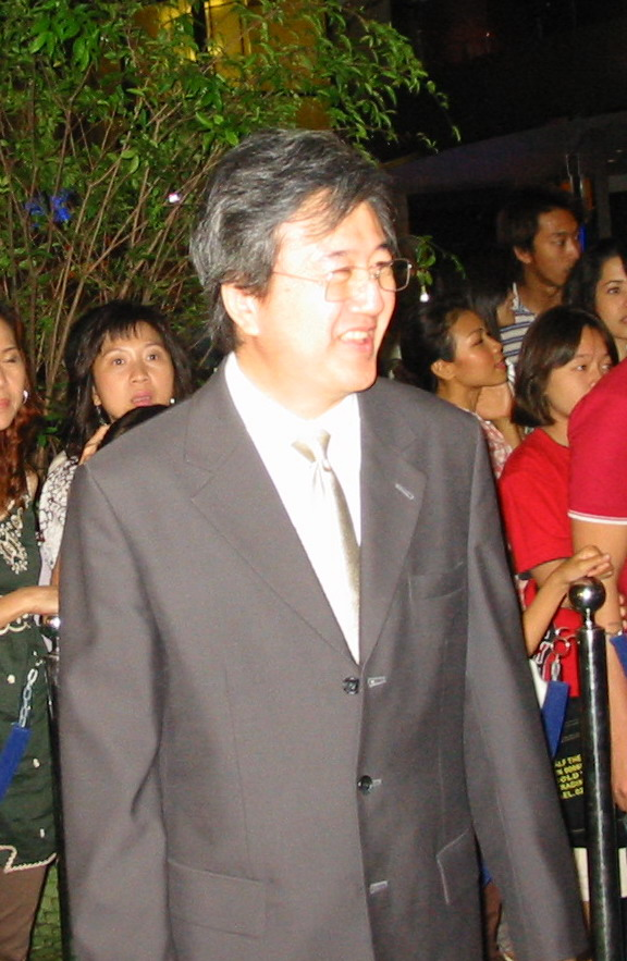 Wittawut Sunthornvinate at Star Entertainment Awards 2007